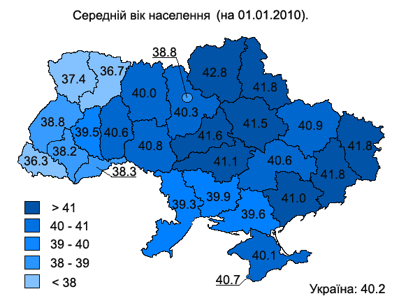 Medium age in Ukraine in 01.01.2010